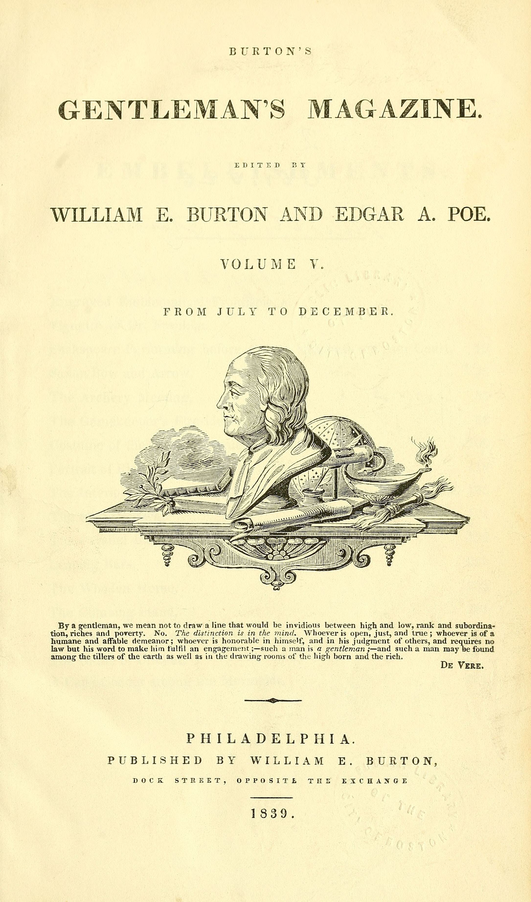 Frontispiece for Volume 5 of Burton's Gentleman's Magazine with the names of both William E. Burton and Edgar A. Poe listed as editors